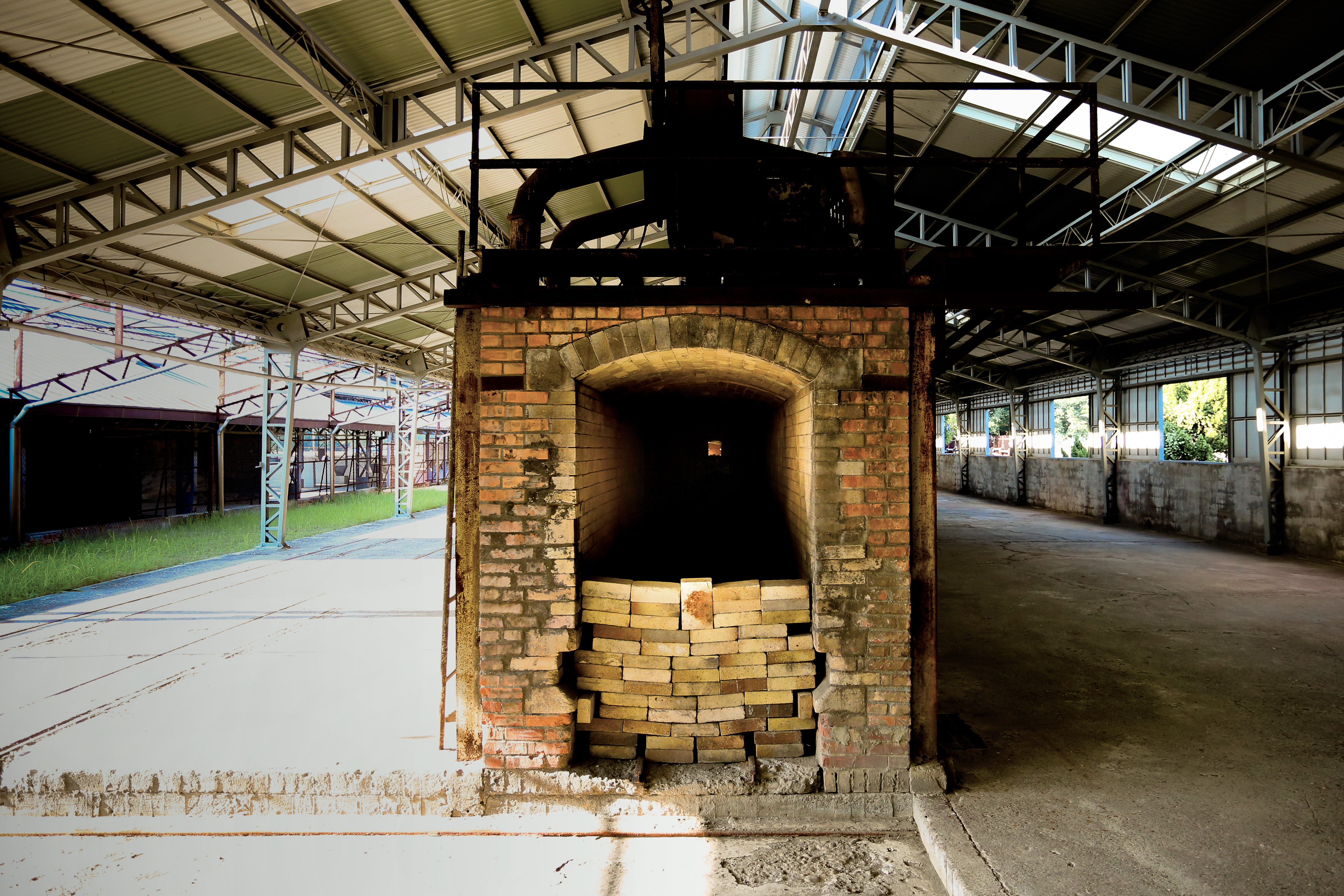 The end view of a Tunnel Kiln in the Former Tangrong Brick Kiln, Sanmin District, Kaohsiung City, Taiwan.